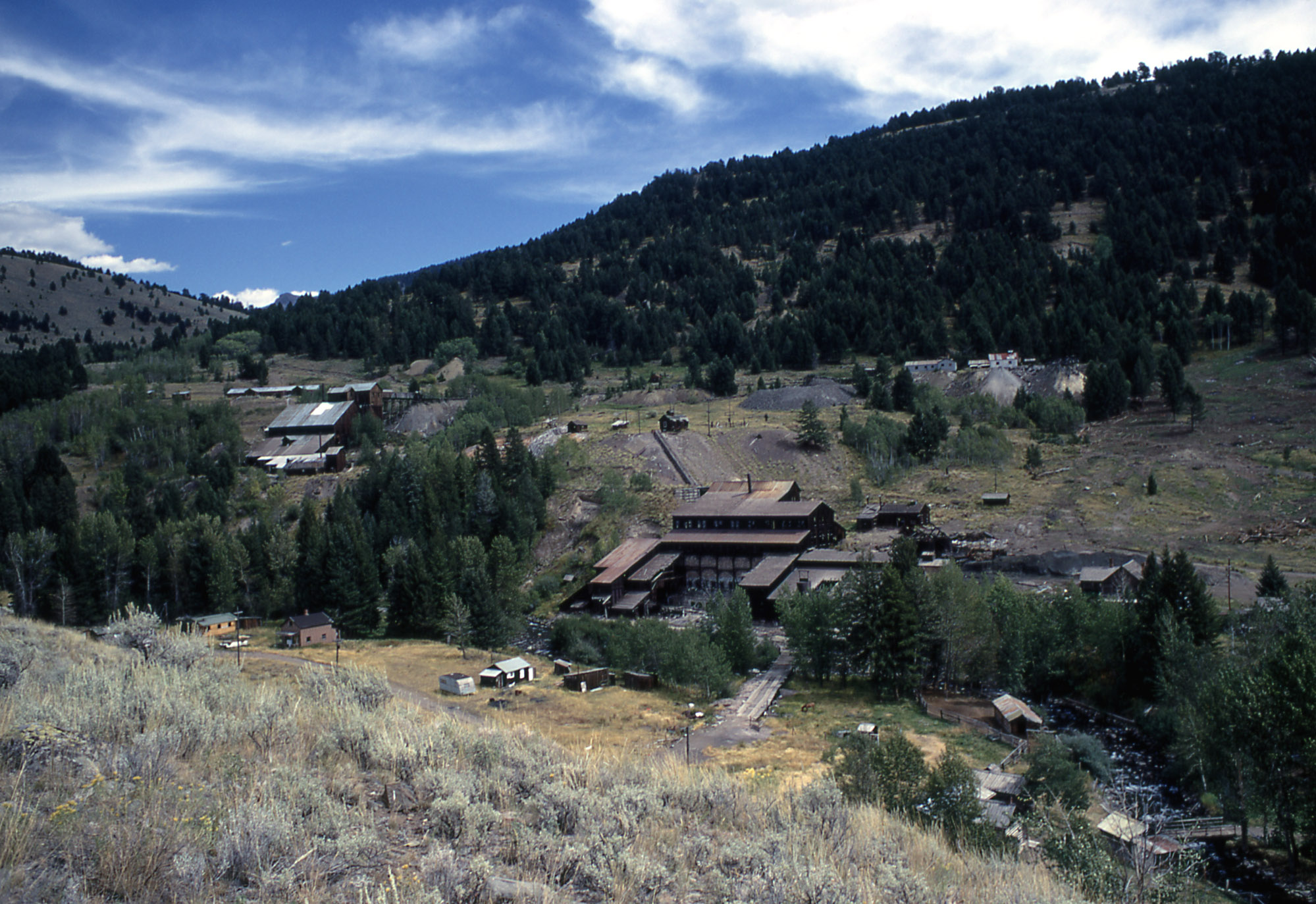 Ghost town of Jardine, Montana with ore mills, near Gardiner, Montana, USA